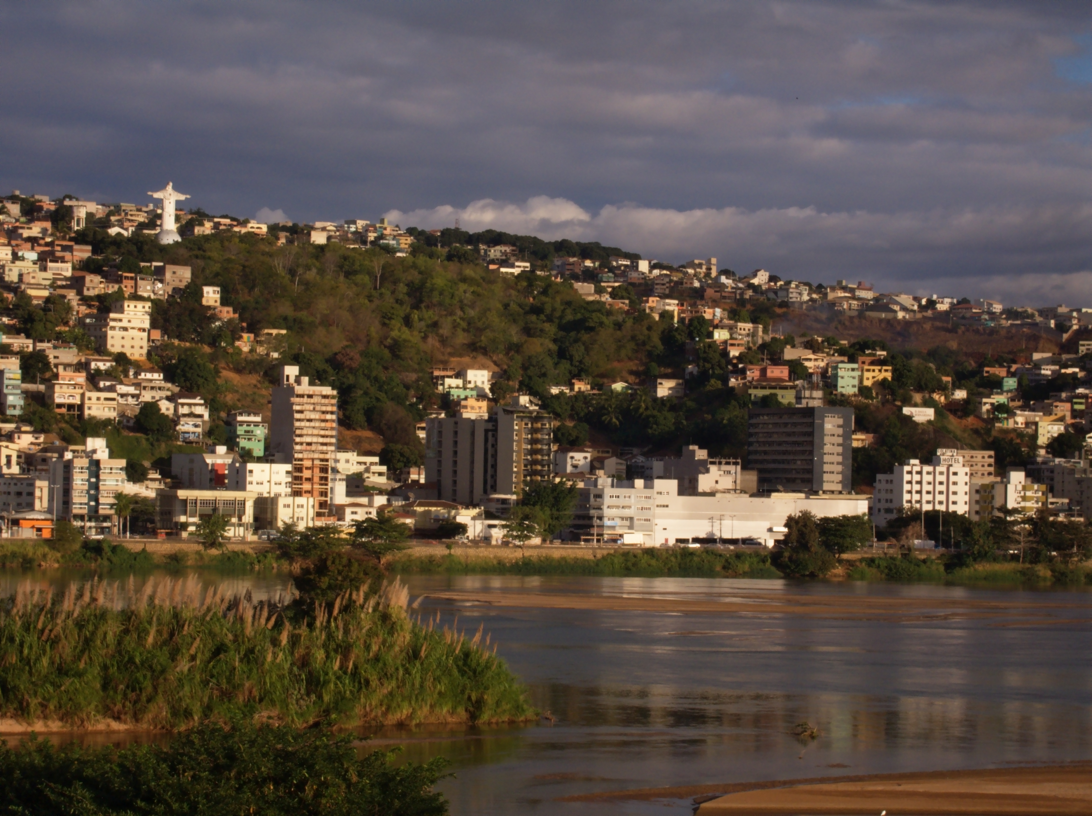 Day Light Photograph of Colatina Brazil